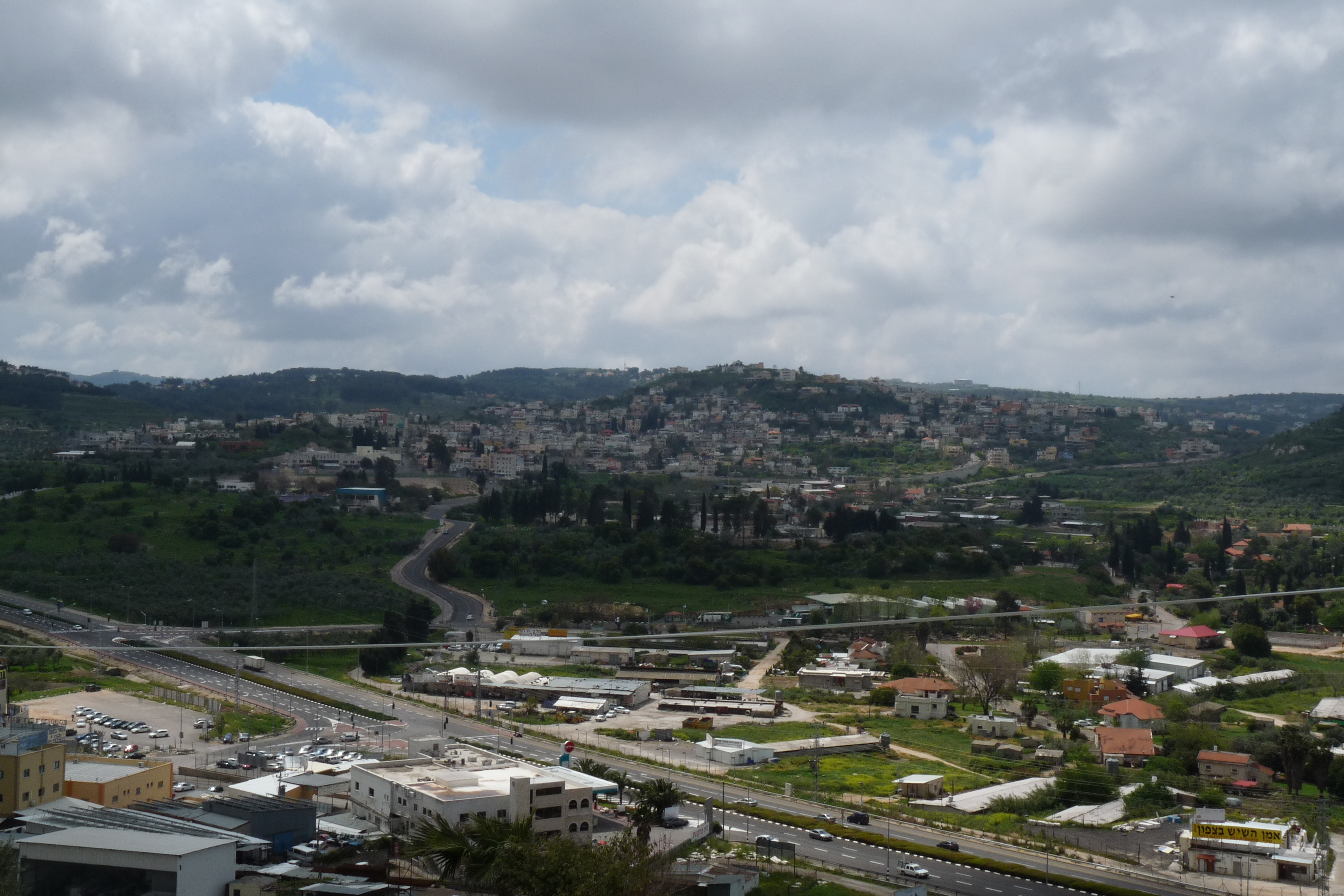 An overview of Tarshicha taken from Mi'ilya